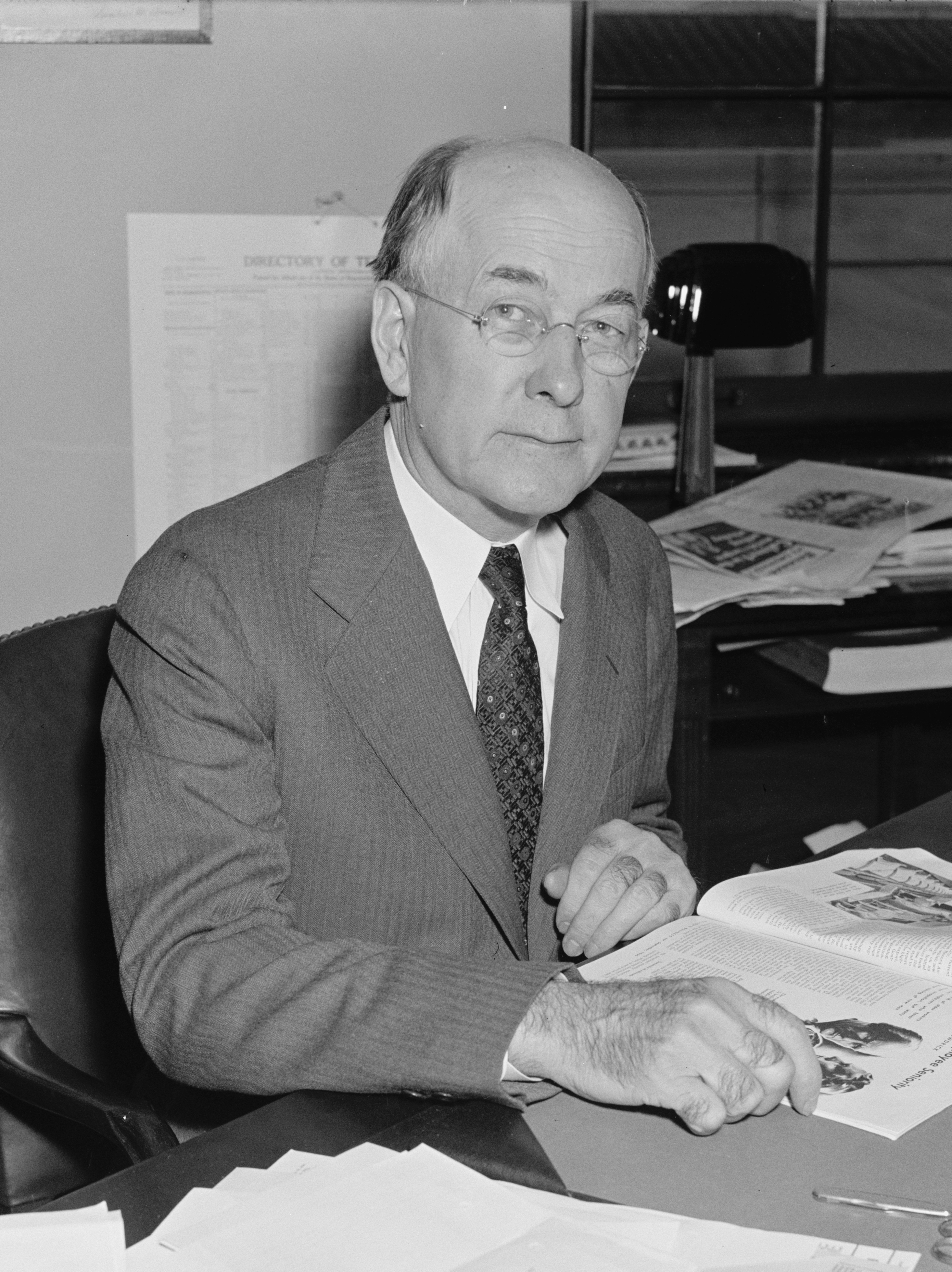 Title: Rep. Carl Mapes Abstract/medium: 1 negative : glass ; 4 x 5 in. or smaller